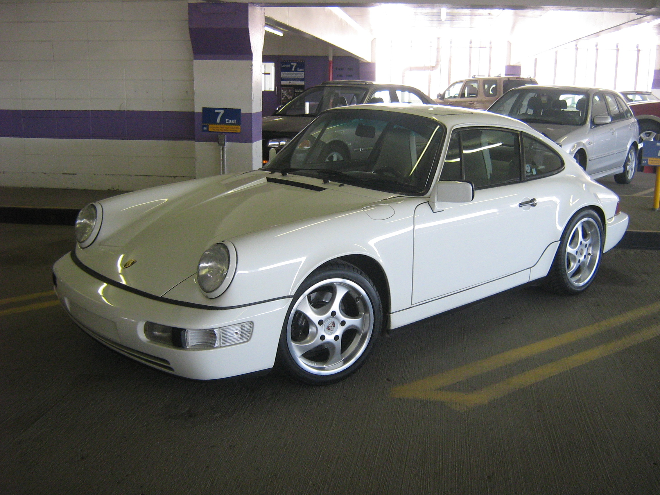 Work had a little car show and I snapped a couple pictures. This belongs to a co-worker who I sold my old Mazda truck to. He just got new rims and suspension.